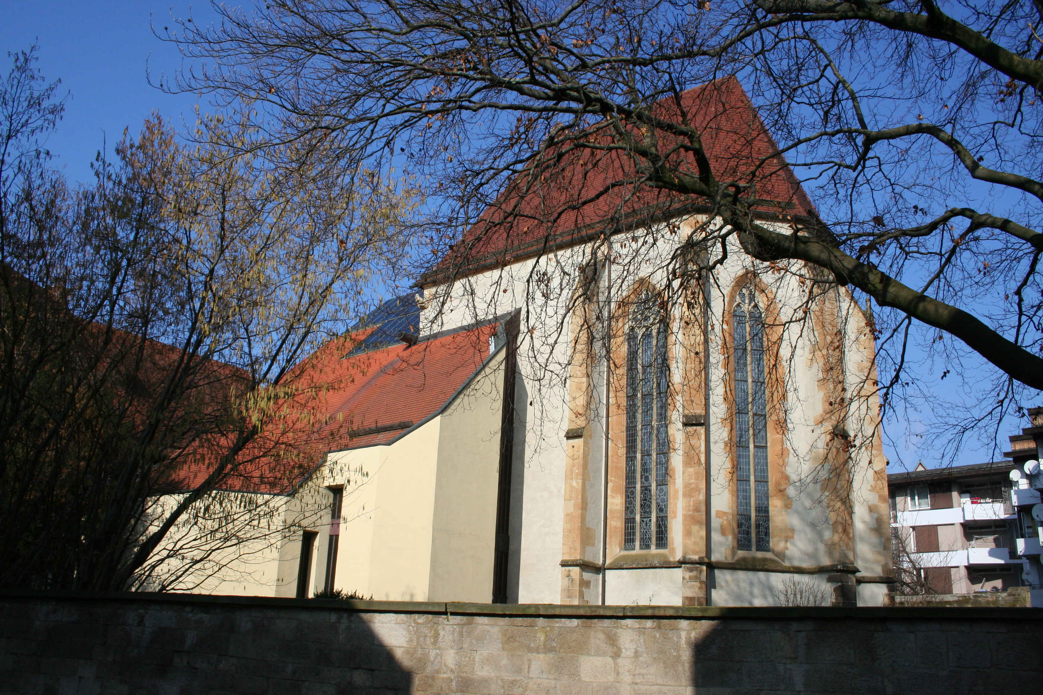 Hospital church of the former hospital in Markgröningen, administrative district Ludwigsburg, Baden-Wurttemberg, Germany.